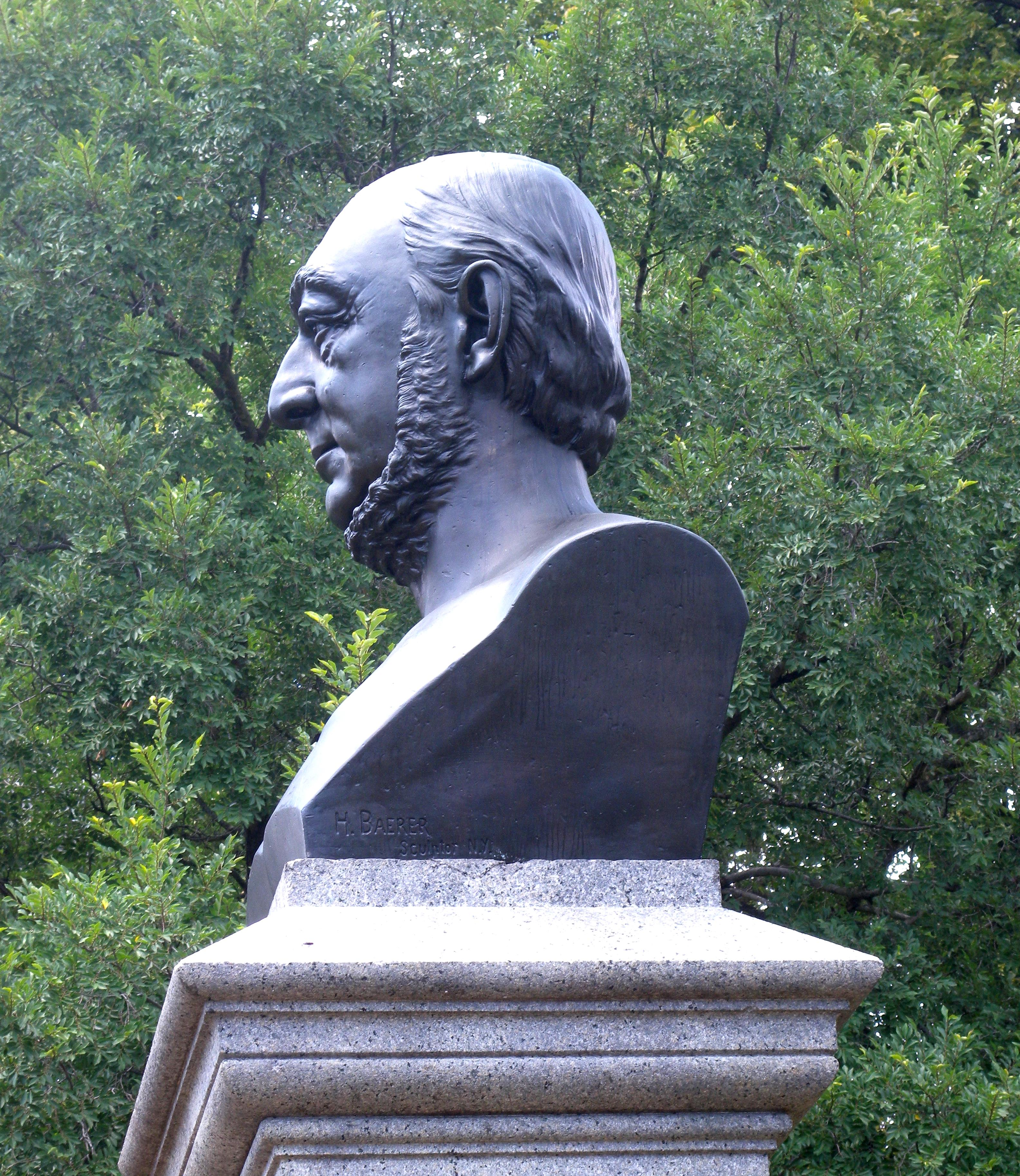 Looking west, zoomed, at bust of Conrad Poppenhusen on a sunny midday.